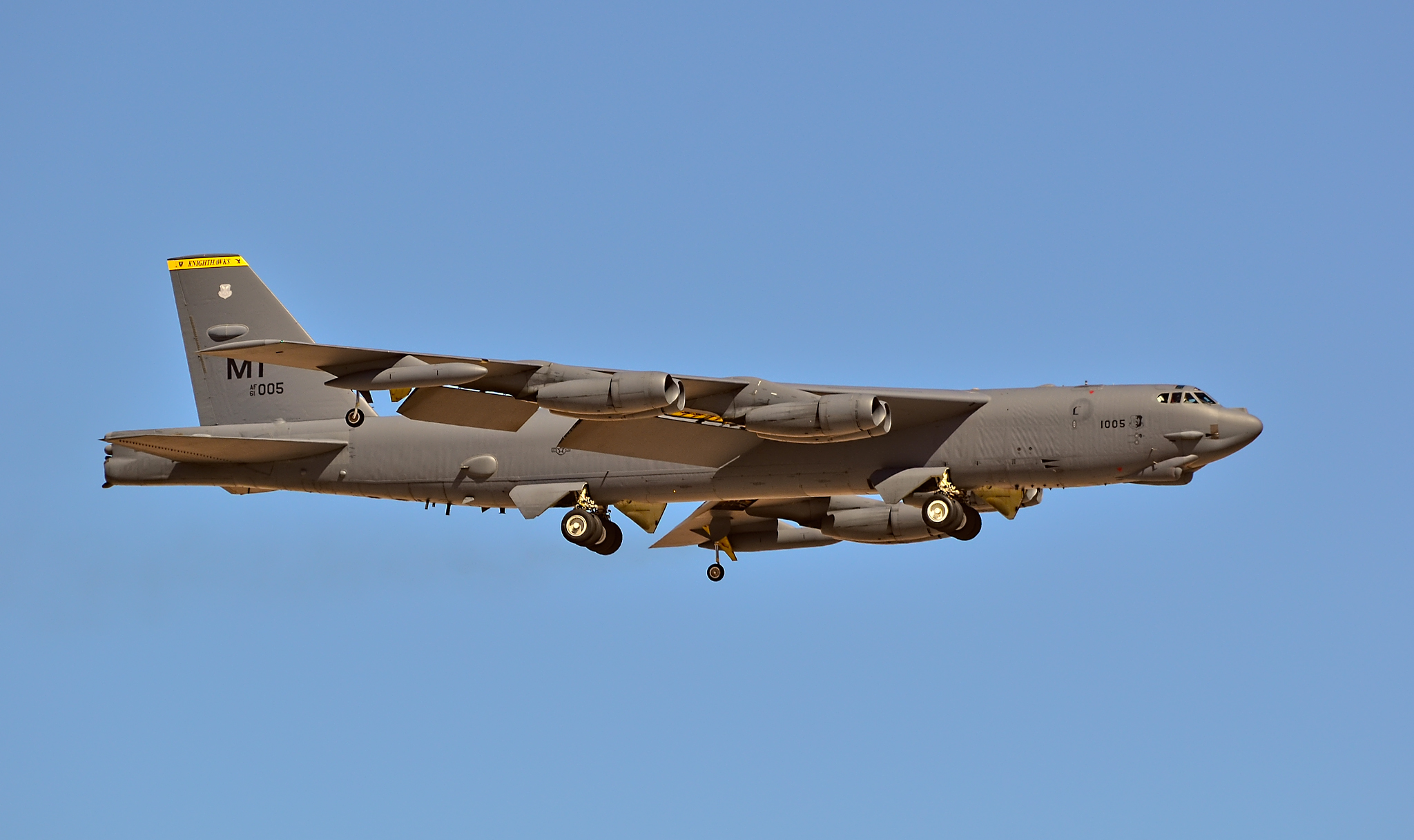 Red Flag 15-3 July 13 to 31 Las Vegas - Nellis AFB (LSV / KLSV) TDelCoro July 15, 2015